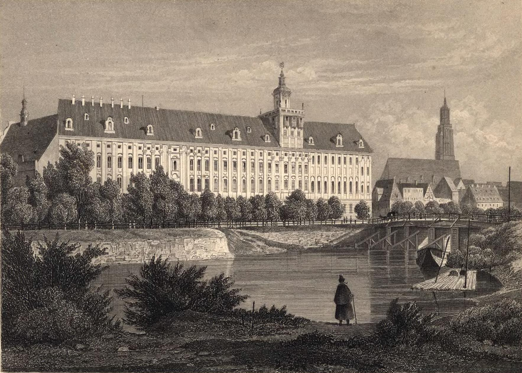 Wrocław University Main Building, 19th century